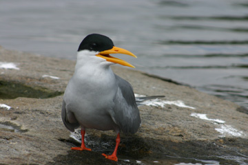 Ranganathittu Birds Sterna acuticauda